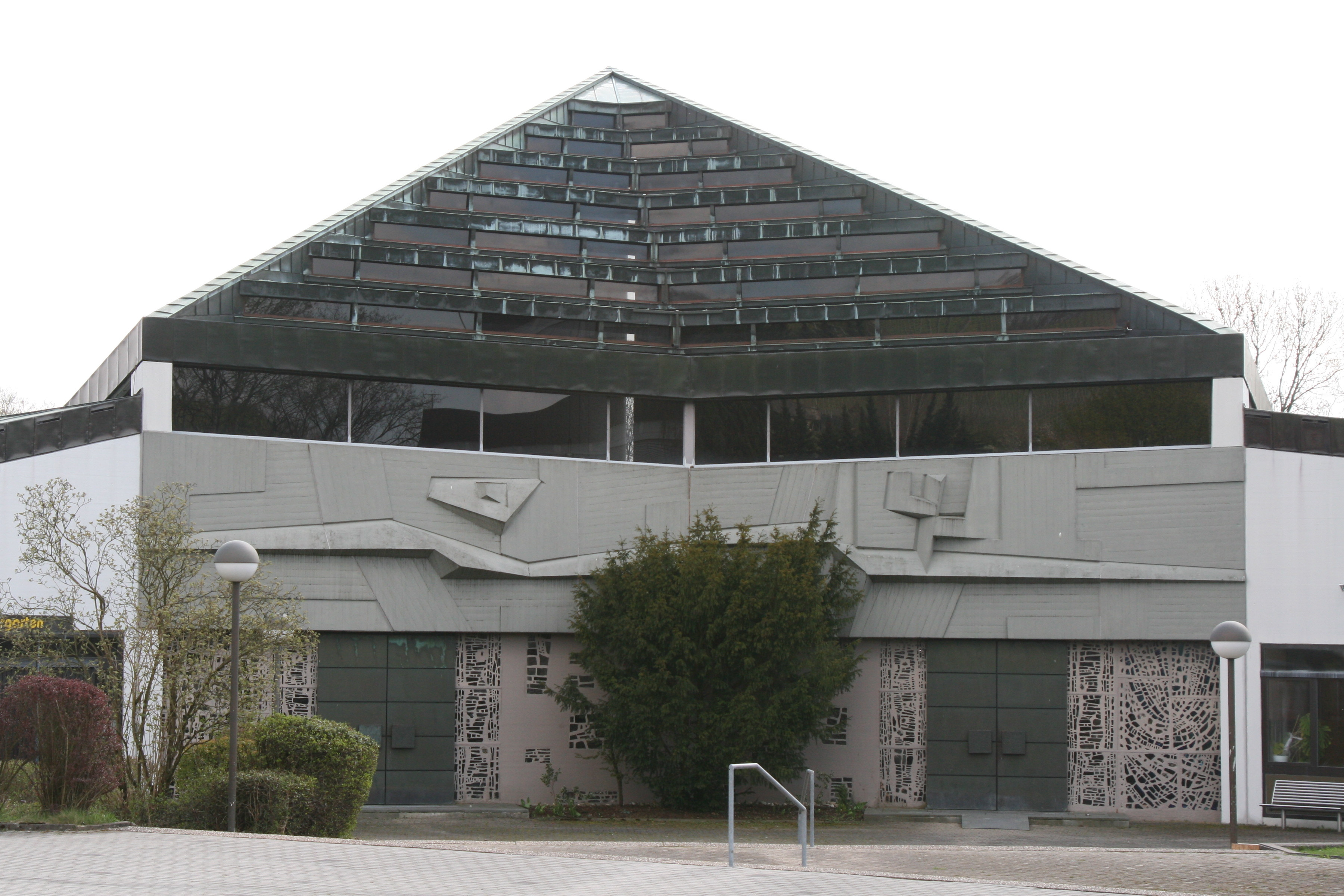 Roman Catholic Vaterunser church (Lord's Prayer church) in Obersulm-Willsbach